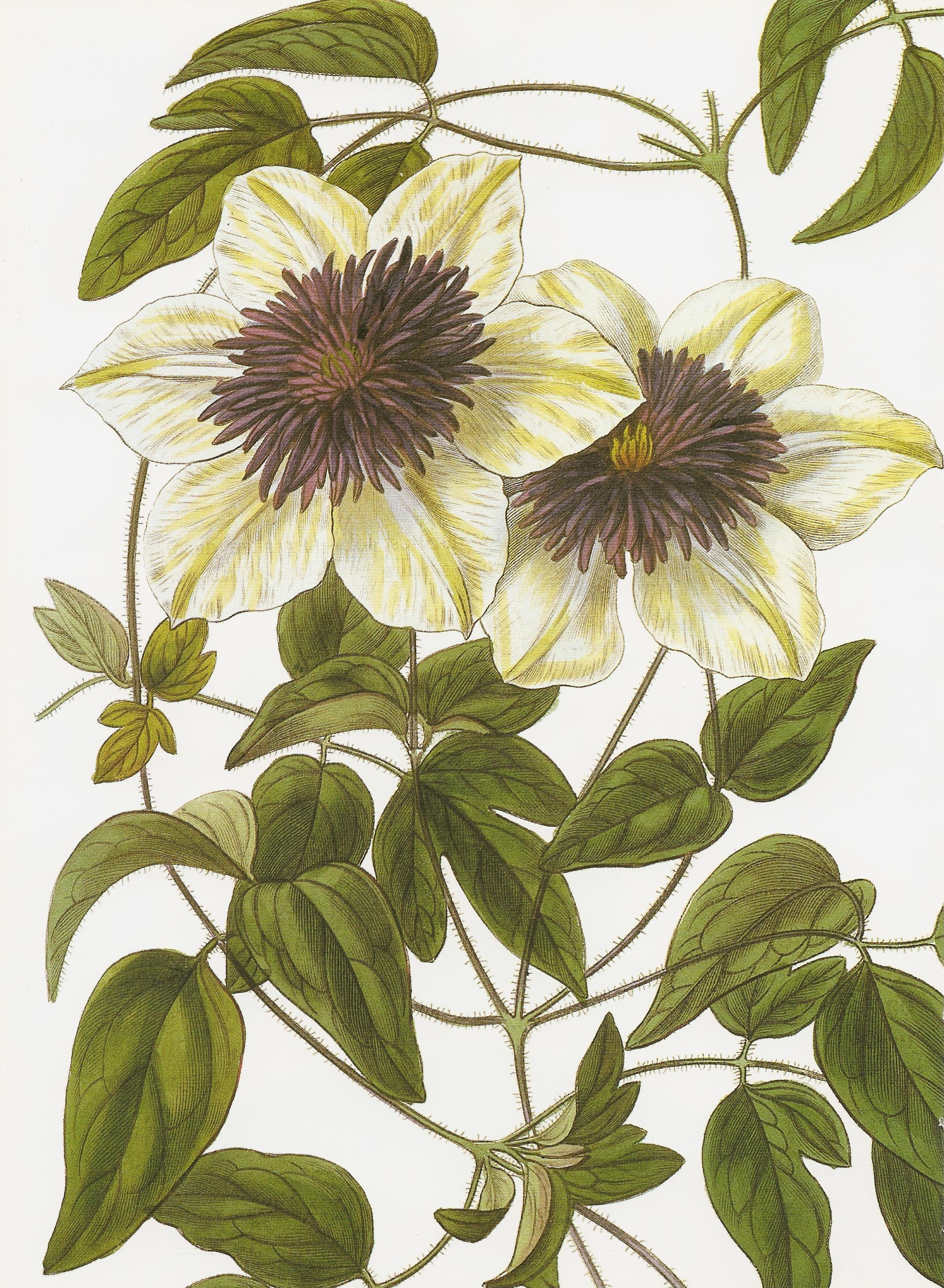 Clematis florida 'Bicolor', a hand-coloured engraving after a drawing by Miss S. A. Drake (fl. 1820s-1840s), from the 24th volume of the Botanical Register (1838), edited by John Lindley